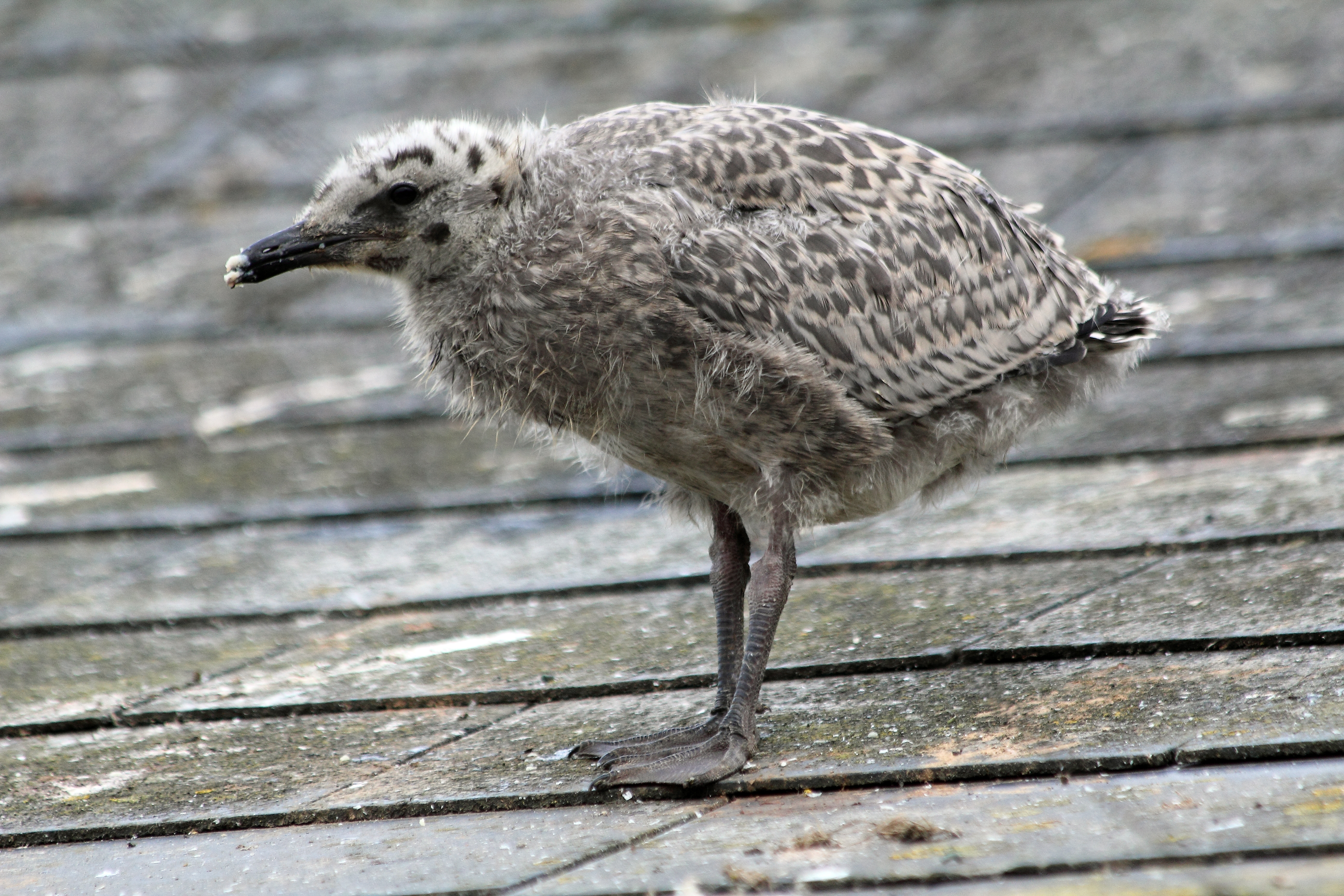 Latin name Larus argentatus Family Gulls (Laridae) Overview Herring gulls are large, noisy gulls found throughout the year around our... Where to see them ... When to see them All year round. What they eat Ominivorous - a scavenger.